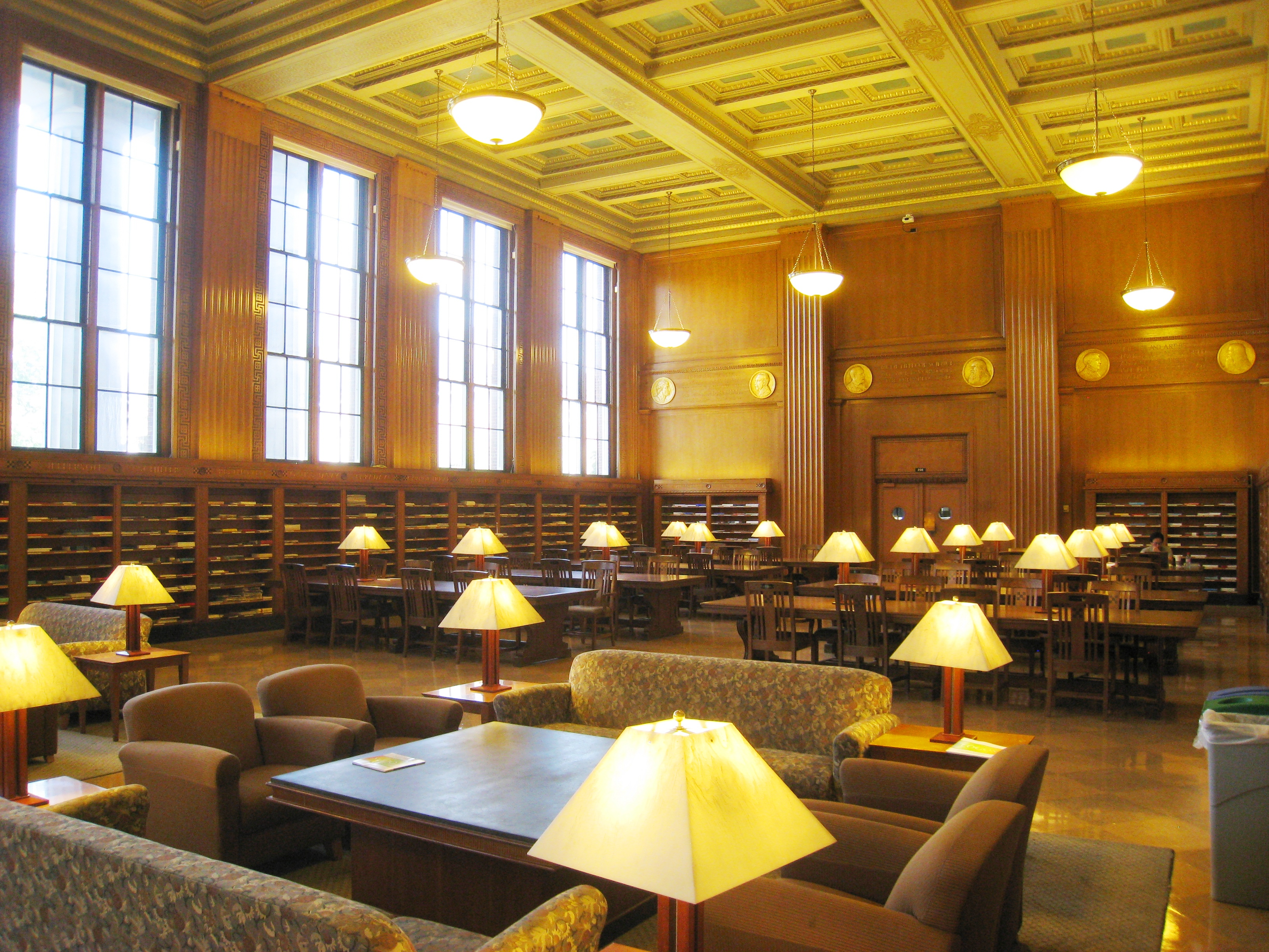 Periodical reading room - Rush Rhees Library, University of Rochester, Rochester, New York, USA.